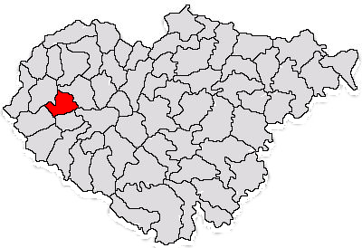 Map Salaj County Romania